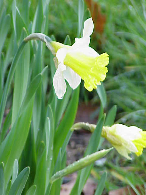 Species: Narcissus pseudonarcissus Family: Iridaceae Image No. 1